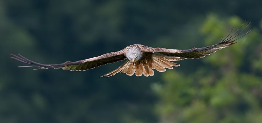 A Red Kite flying at a bird feeding station near Laurieston, Dumfries and Galloway, Scotland.